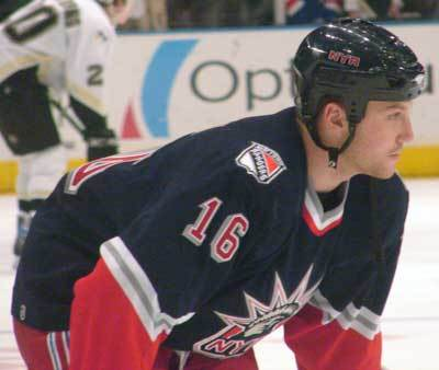 Sean Avery of the New York Rangers during a game against the Pittsburgh Penguins.